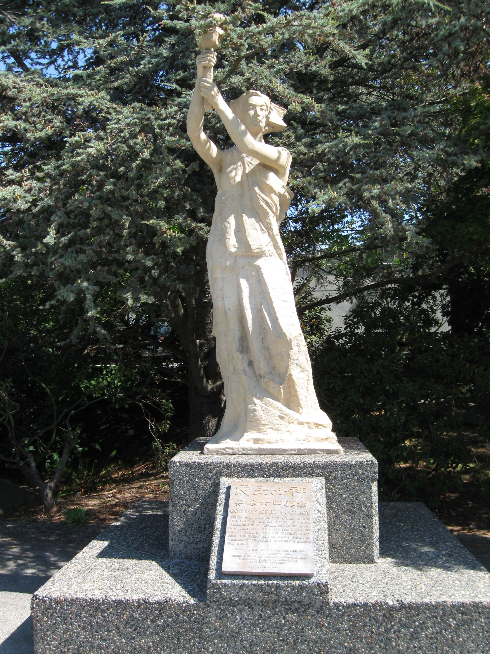 A view of a replica of the famous "Goddess of Democracy" statue which was erected on June 4, 1991 at the University of British Columbia campus in Vancouver, BC, Canada. It was placed here by the UBC Alma Mater Society, UBC Chinese Student and Scholar Association & Vancouver Society in Vancouver, Canada, in support of Democratic Movement in memory of those who died in Beijing, China on June 4, 1989 due to the Tiananmen Square Incident.